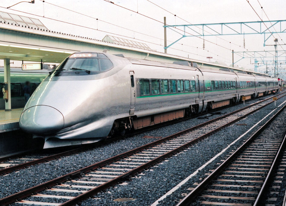 JR East 400 series 6-car shinkansen set at Yamagata Station in original livery